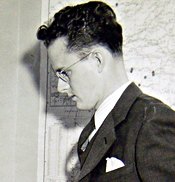 Marion Tinsley Bennett, US Representative from Missouri